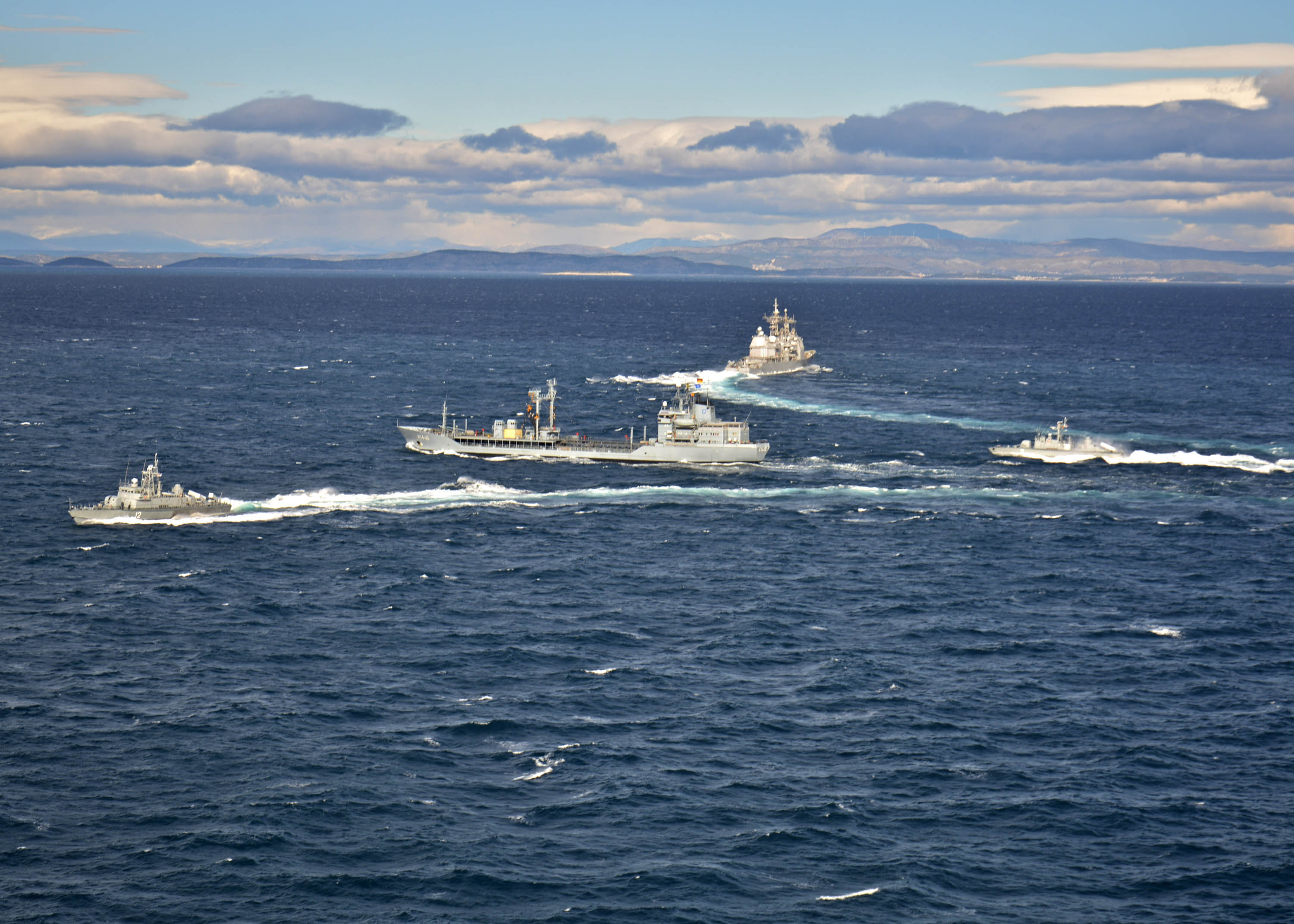 The Standing NATO Maritime Group 2 (SNMG2) ships German Navy oiler Spessart (A 1442), center, and flagship guided-missile cruiser USS Vicksburg (CG-69), top, participate in replenishment-at-sea maneuvers between SNMG2 and Croatian missile boats Kralj Dmitar Zvonimir (RTOP-12), left, and Šibenik (RTOP-21), right, in the Adriatic Sea. SNMG2 ships exercised with the Croatian Navy after a port visit to Split, Croatia. SNMG2 is a multinational integrated force that projects a constant and visible reminder of the Alliance's solidarity and cohesion afloat.